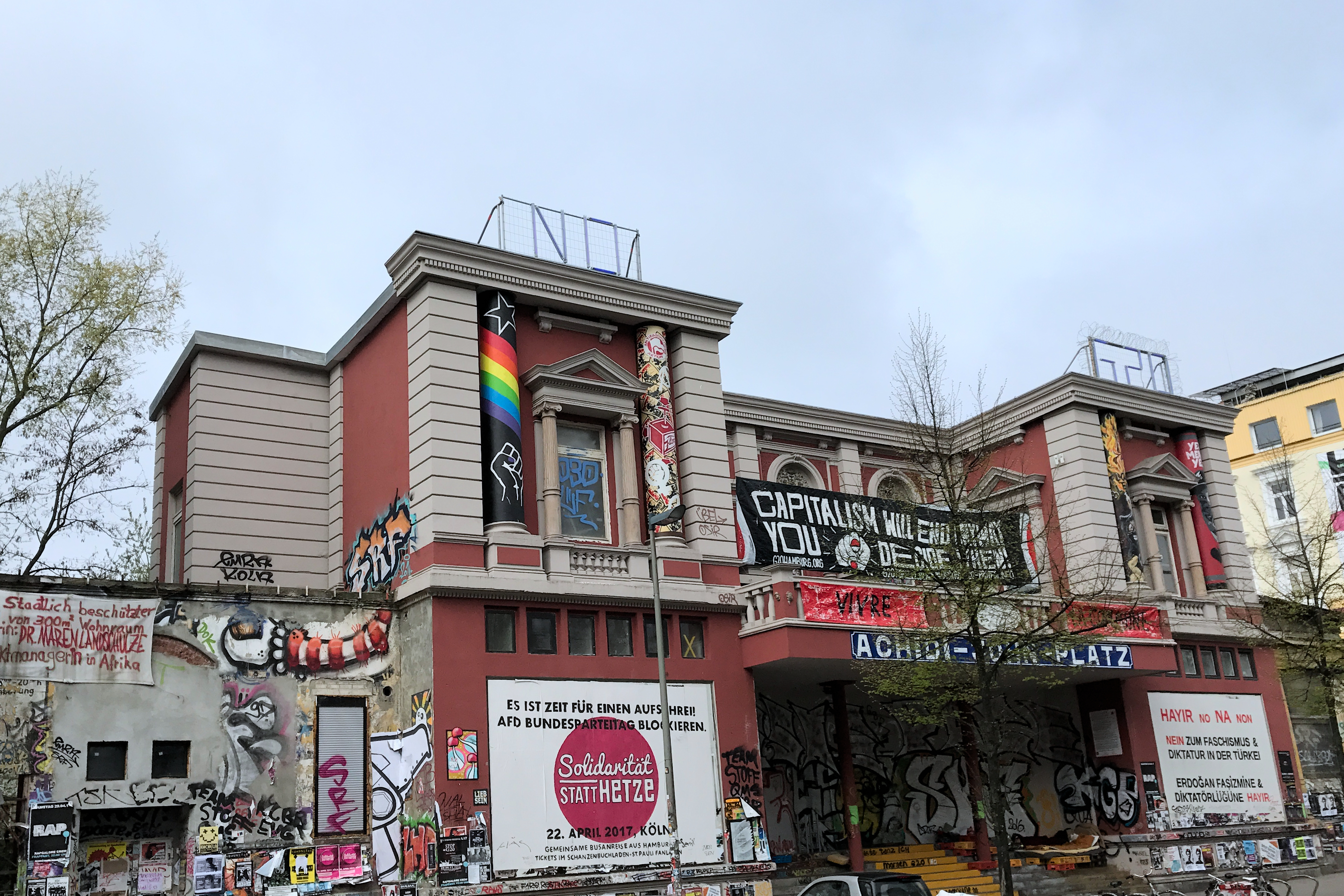 Lateral view of the Rote Flora